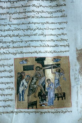 Page From Gelati Gospel, Georgia A page from a rare Gelati Gospel in the Museum of Fine Arts